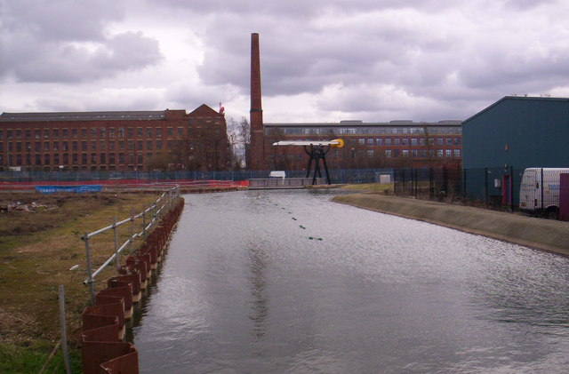 New Islington, new bridge. New canal basin next to the site for Will Alsopp's Chips apartment building in the New Islington development in Ancoats. The lifting bridge will give access to boats from the Ashton Canal.